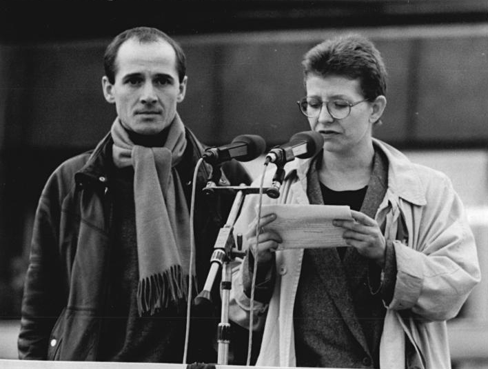 ADN-Zentralbild (Image Centre) – Link – 4 November 1989 – Berlin: Demonstration. Five hundred thousand citizens took part in a demonstration regarding the content of Articles 27 and 28 of the Constitution of the German Democratic Republic. The actors Johanna Schall and Ulrich Mühe speaking, photographed at the subsequent meeting on the Alexanderplatz. Factual corrections and alternative descriptions are encouraged separately from the original description. Additionally errors can be reported at this page to inform the Bundesarchiv. Original historic description: ADN-ZB Link 4.11.89 Berlin: Demonstration 500.000 Bürger beteiligten sich an einer Demonstration für den Inhalt der Artikel 27 und 28 der Verfassung der DDR. Auf dem anschließenden Meeting auf dem Alexanderplatz ergriffen auch die Schauspieler Johanna Schall und Ulrich Mühe das Wort.